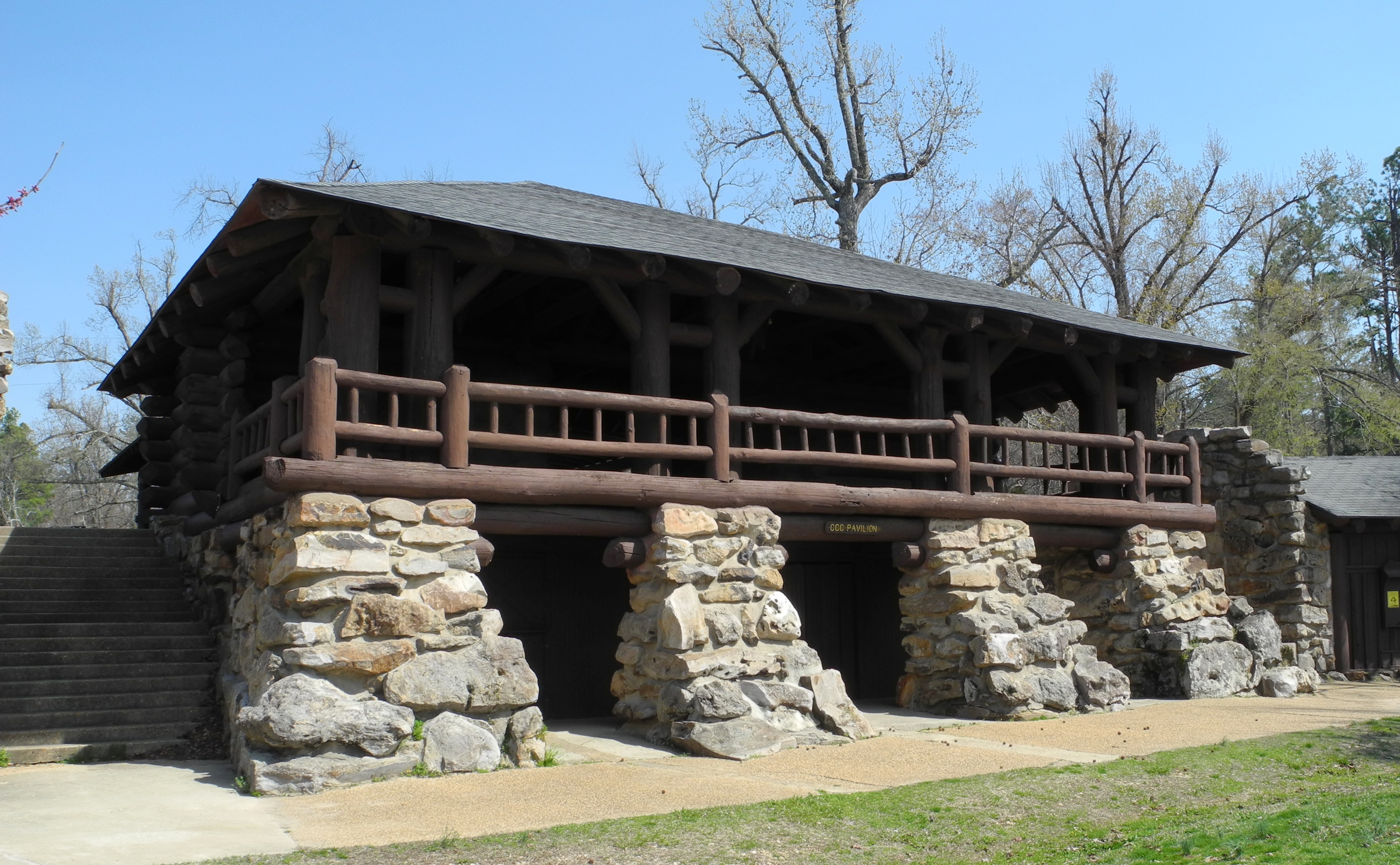 A CCC-built pavilion at Crowley's Ridge State Park in Arkansas.